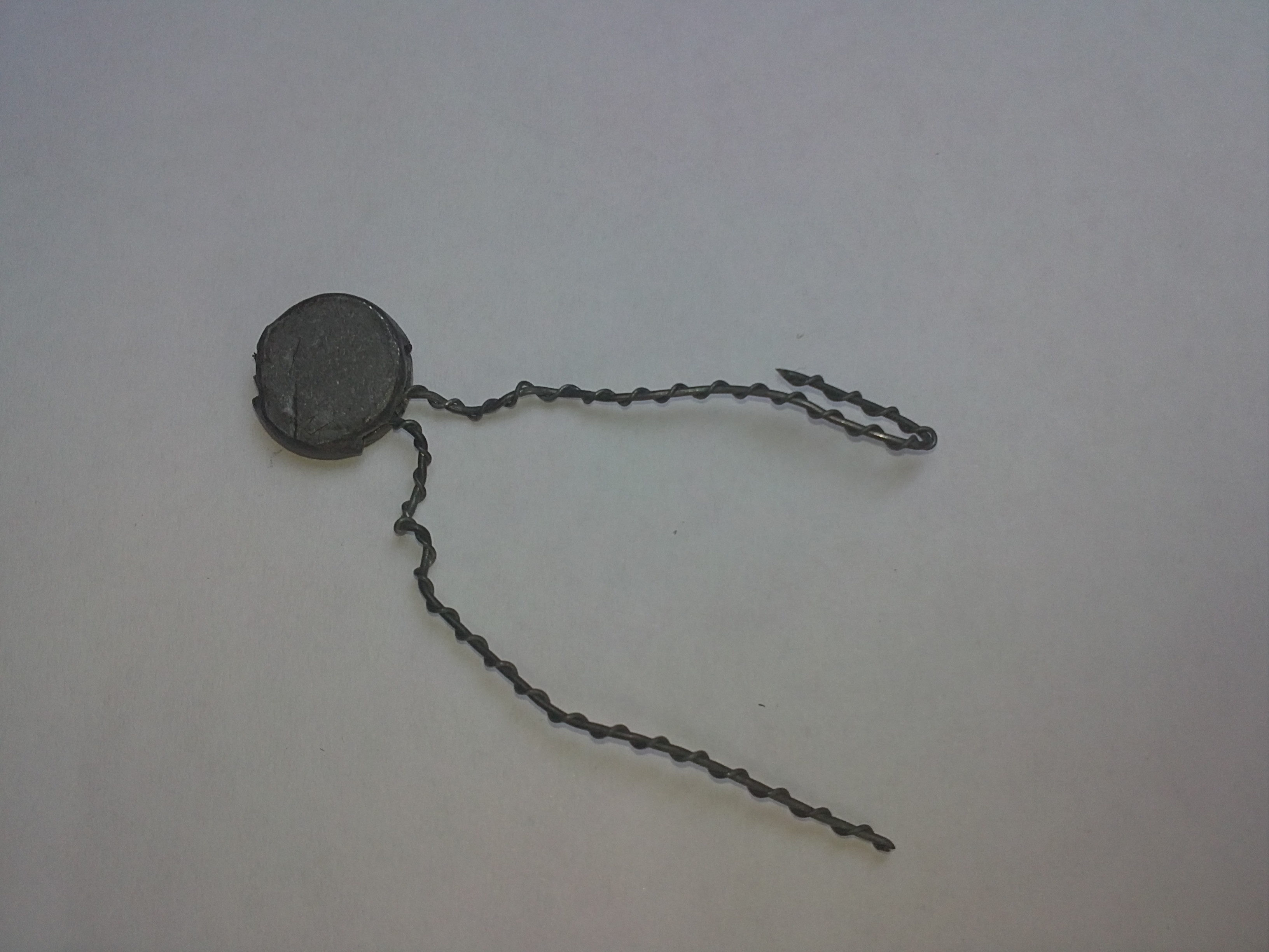 Lead seal